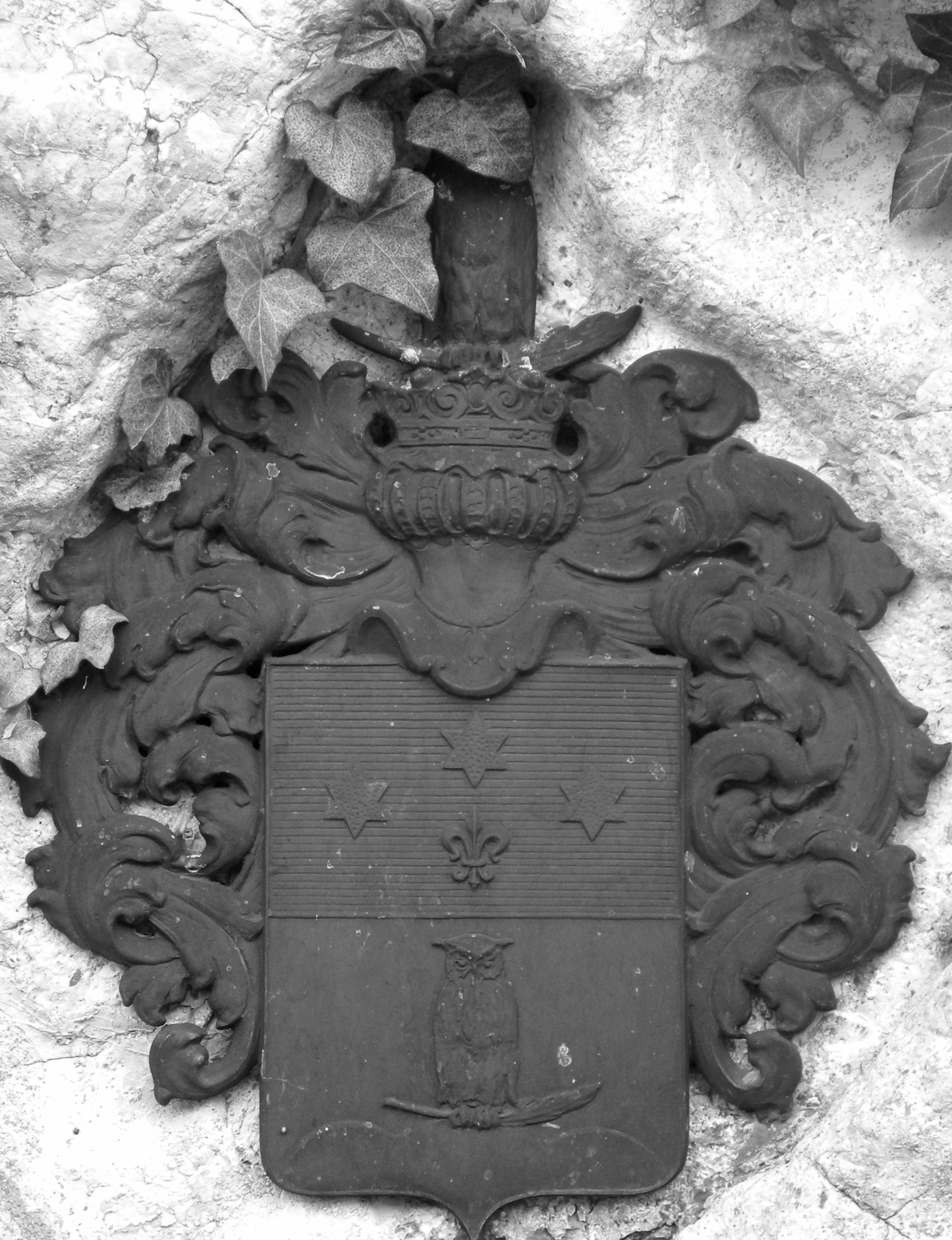 Coat of arms of Géza Ángyán de Vörösberény (1890 - 1936). Gravestone in Hietzing Cemetery, Vienna. Grave No. 5-10B. Inscription on the gravestone: "DR. GÉZA ÁNGYÁN // VON // VÖRÖSBERÉNY // 1. IV. 1890 9. III. 1936 // BÉLA // 23. VIII. 1918 28. XI. 1918 // KITTY // 20. IV. 1923 4. 1. 1943 // ELISABETH ÁNGYÁN // VON // VÖRÖSBERÉNY // 3. V. 1897 31. I. 1946 // DR JOHANNES VON ÁNGYÁN // 25. IX. 1919 14. VIII. 1975 // MARGARETHA VON ÁNGYÁN // 16. VI. 1924 29. III. 2005".